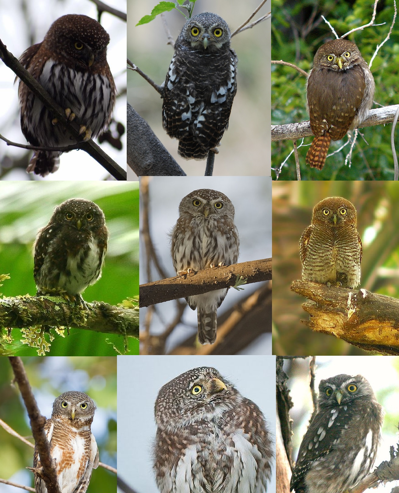 A collage of Pygmy owls (Glaucidium) Species (from left): 1st line – Glaucidium gnoma, Glaucidium capense, Glaucidium brasilianum. 2nd line – Glaucidium costaricanum, Glaucidium perlatum, Glaucidium radiatum. 3rd line – Glaucidium cuculoides, Glaucidium passerinum, Glaucidium nanum.